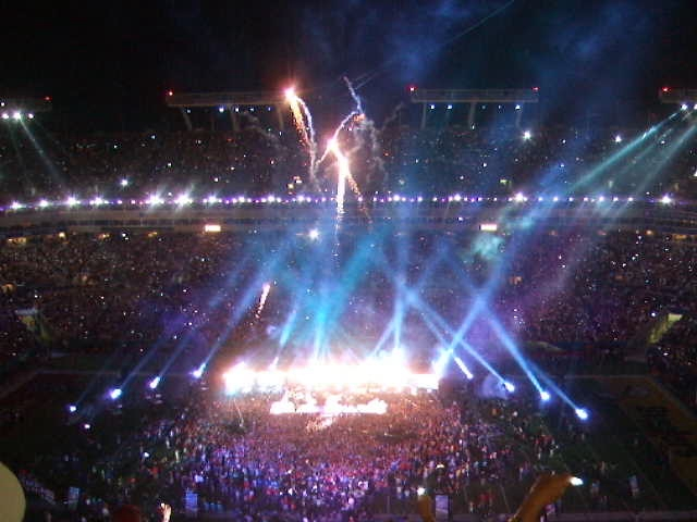 Bruce Springsteen - Born to run DSCF5116